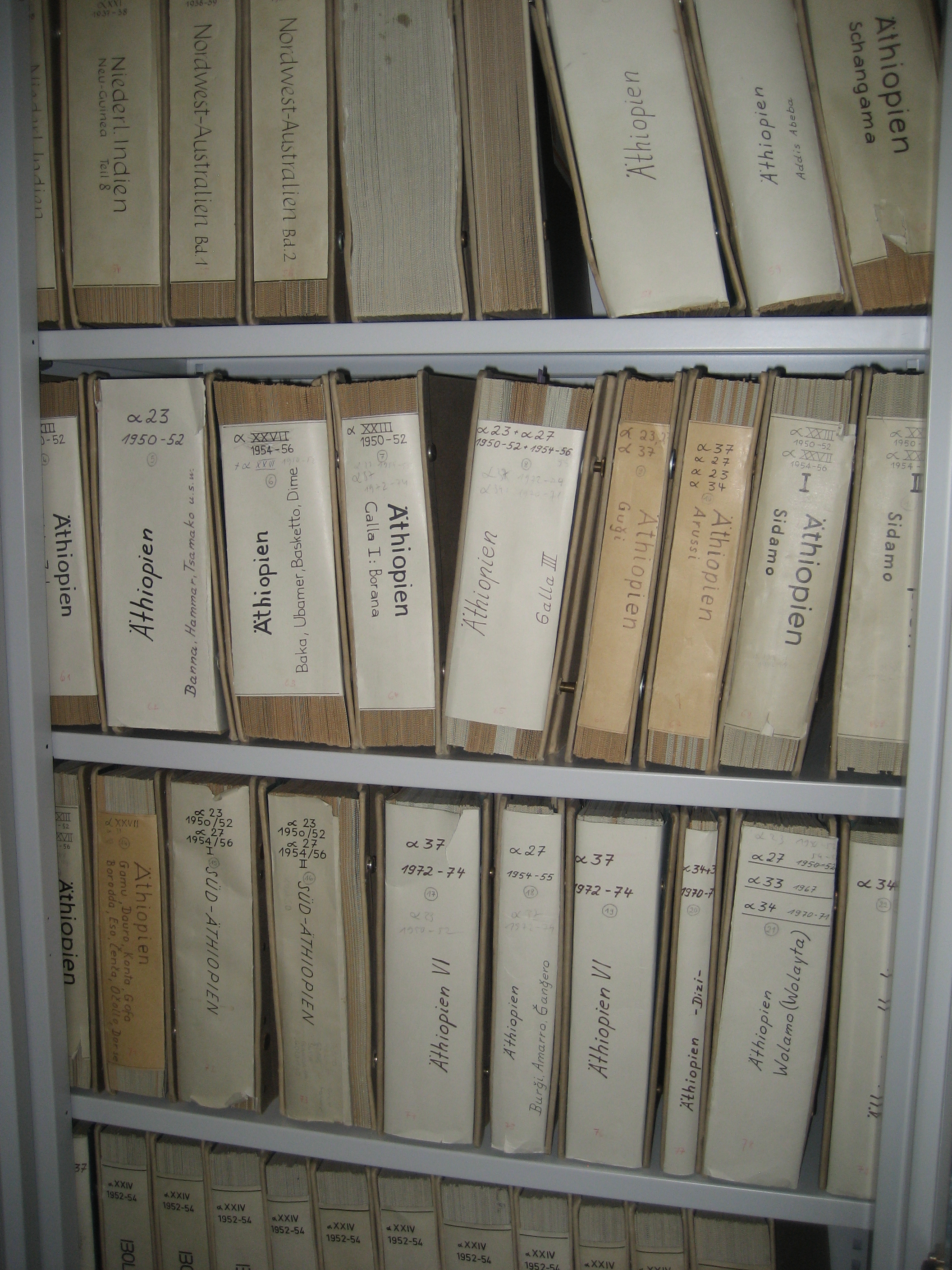 Cupboard with albums containing photographs from the travels of Leo Frobenius around the world. Collection Frobenius Institute, Frankfurt am Main (Germany)